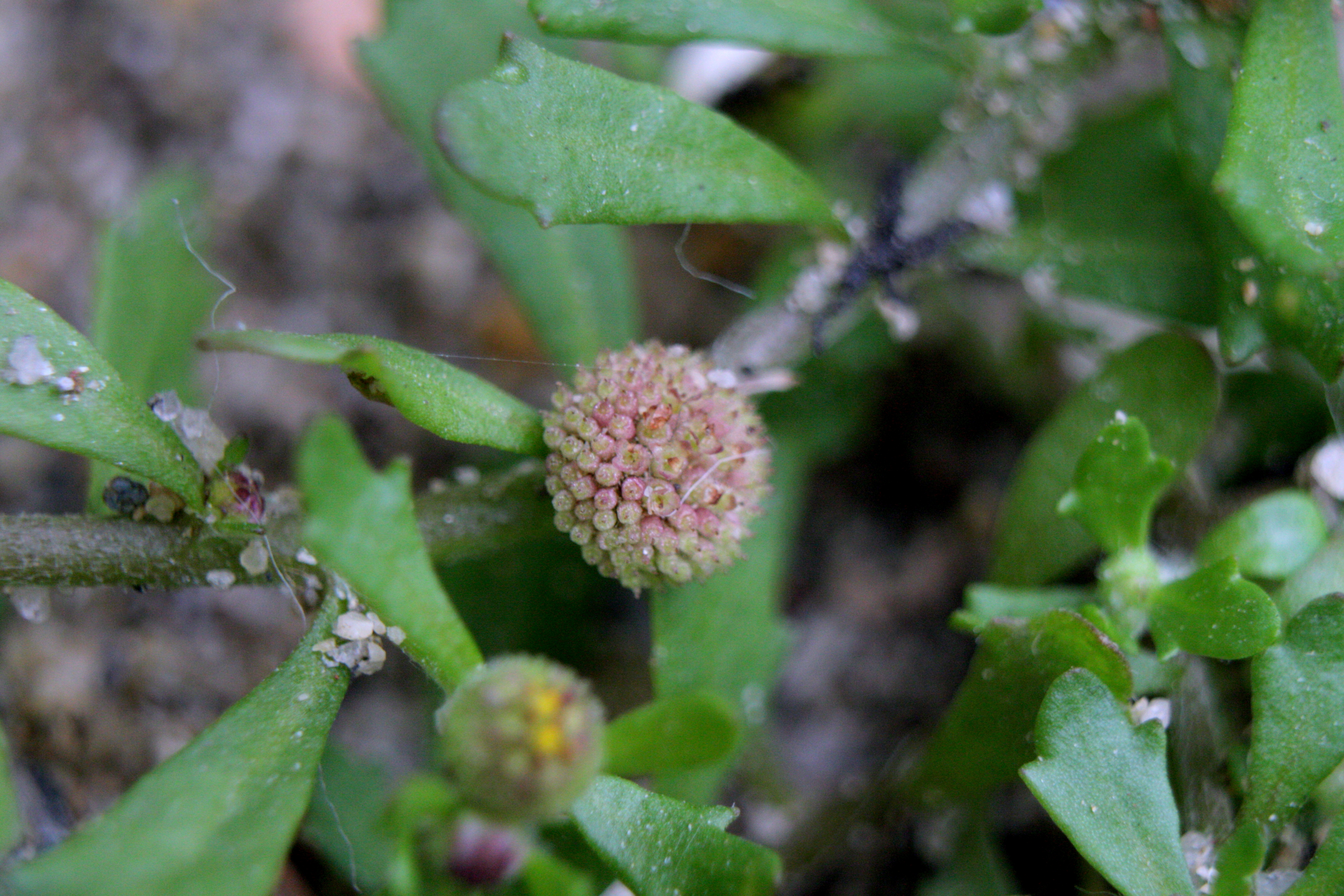 Centipeda minima